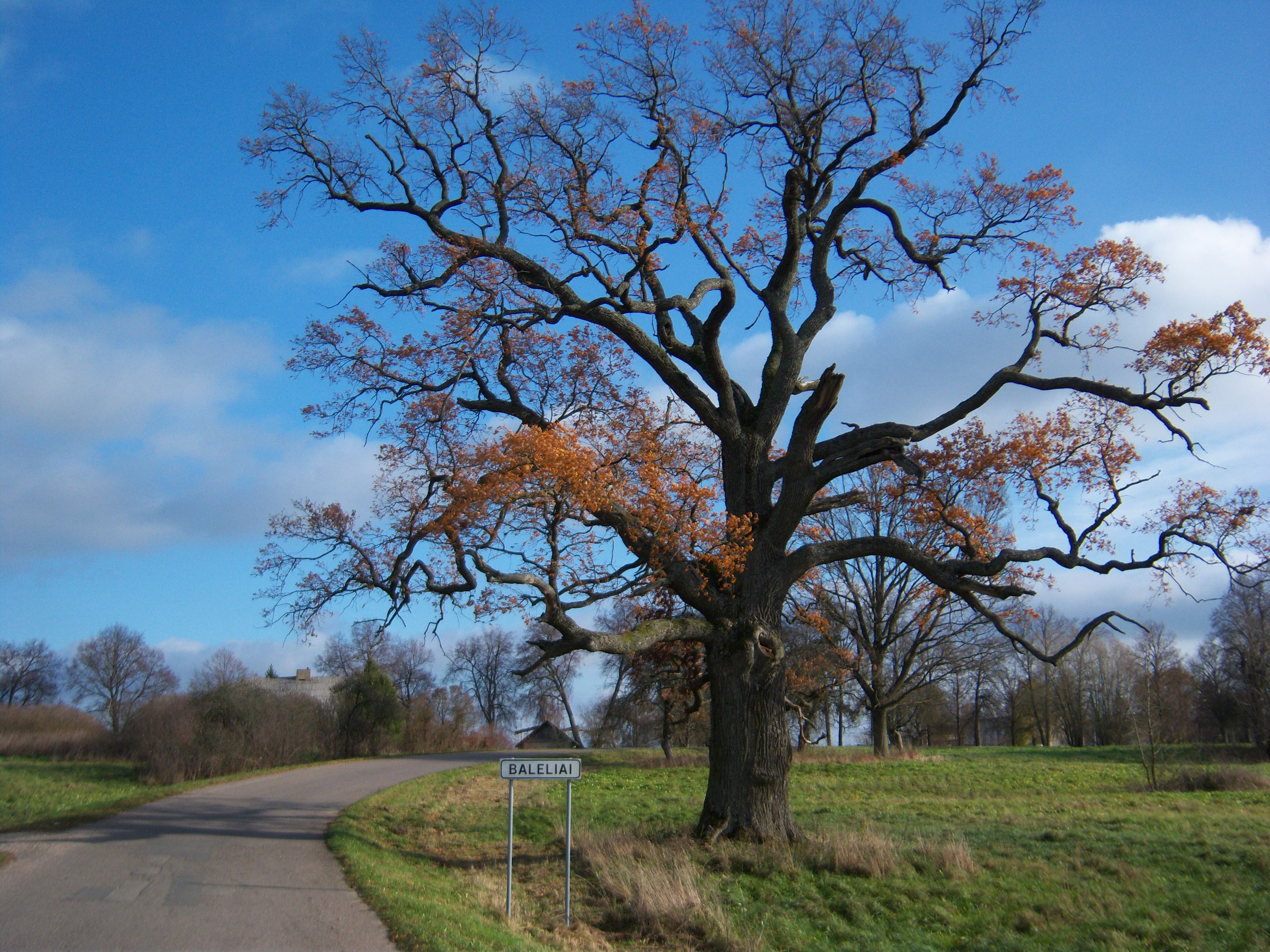 Viškoniai oak, Ukmergė District, Lithuania